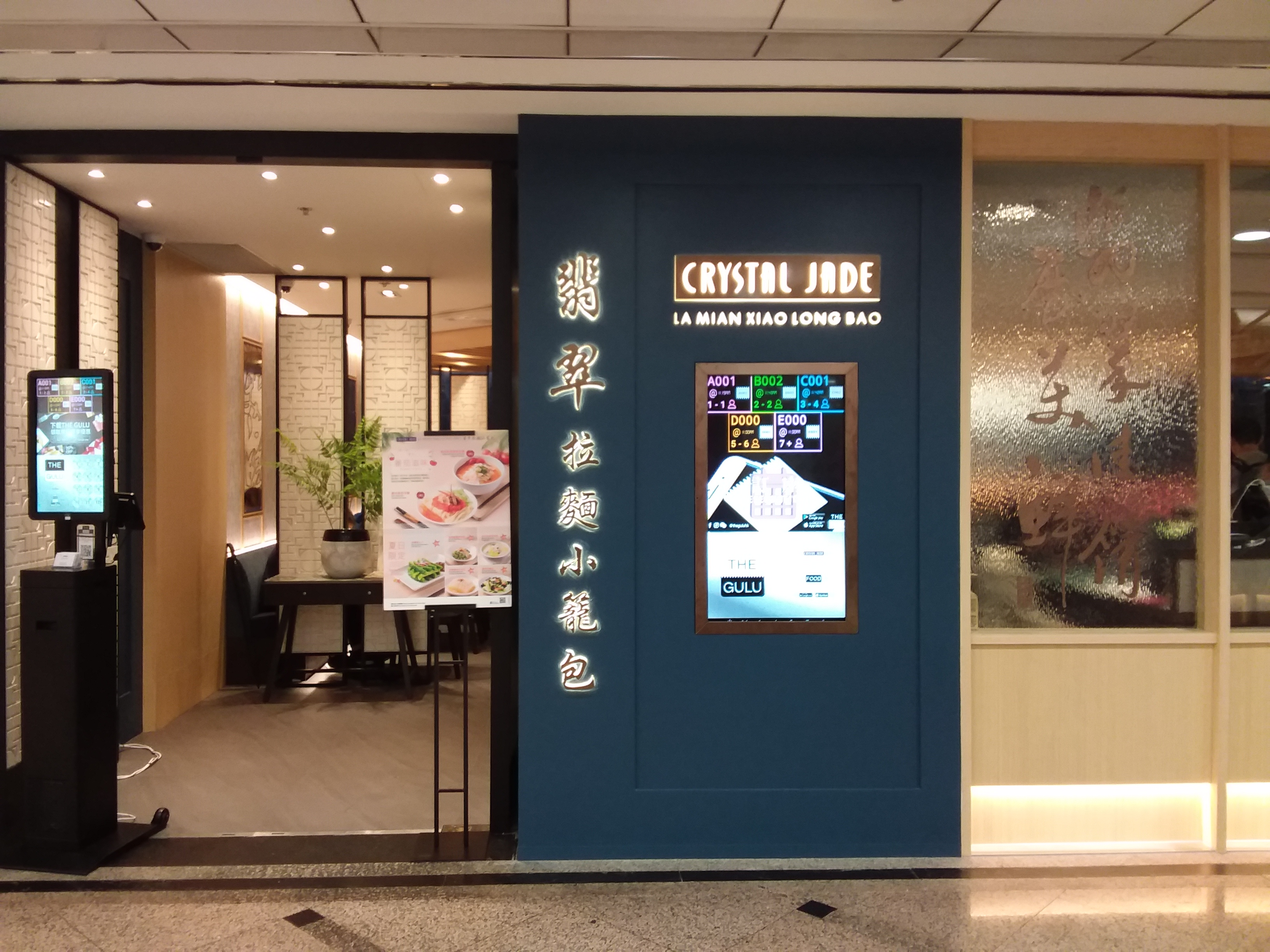 HK CWB Times Square basement mall 翡翠拉麵小籠包 Crystal Jade La Mian Xiao Long Bao Restaurant in August 2018